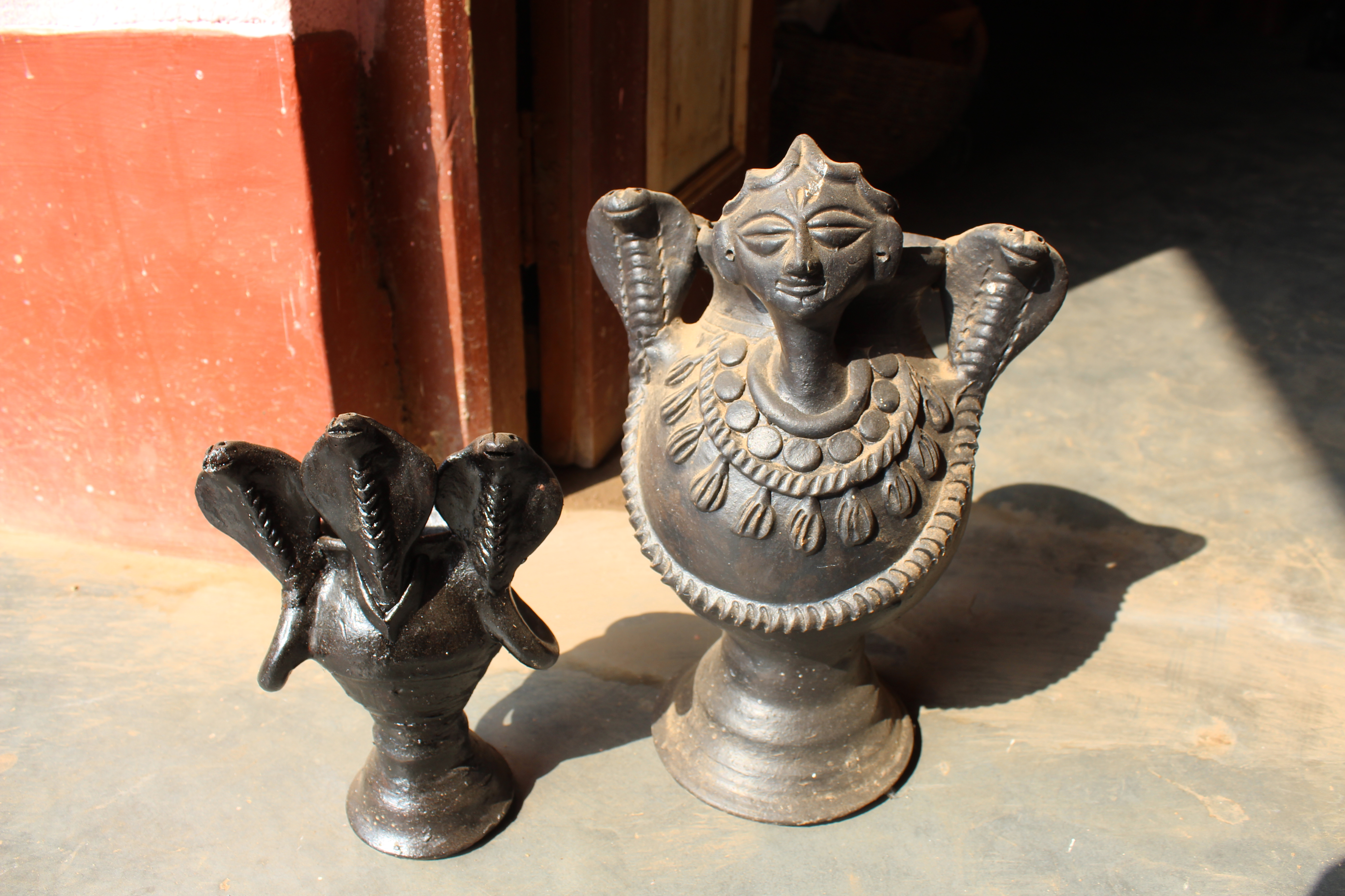 Terracotta art of Panchmura